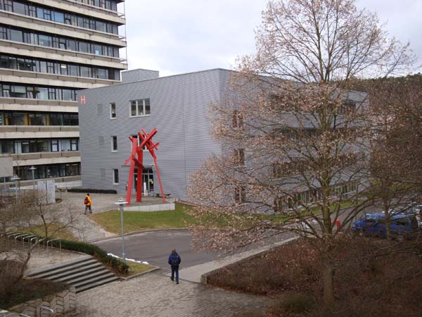 Chemistry Building and laboratories - Sculpture: Christoph Freimann (2004), Auf der Morgenstelle 6